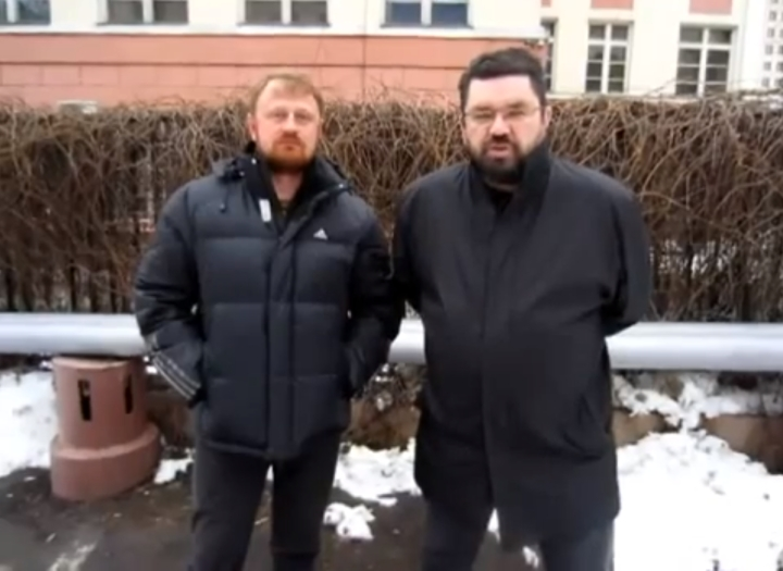 Russian "honest cop" media personality Maj. Alexey Dymovsky (left) together with contemporary writer Yuri Yekishev addressing the people of Russia on March 4, 2012, Moscow. Day of the Russian presidential election, 2012.